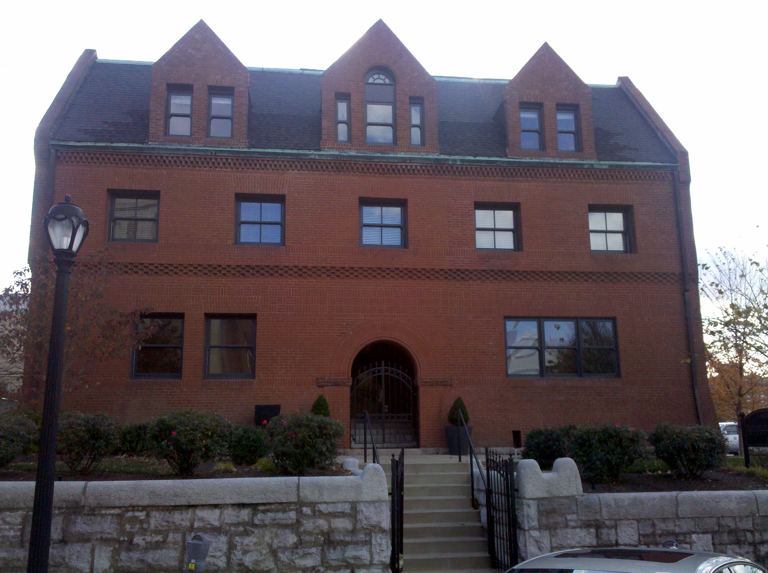 street view